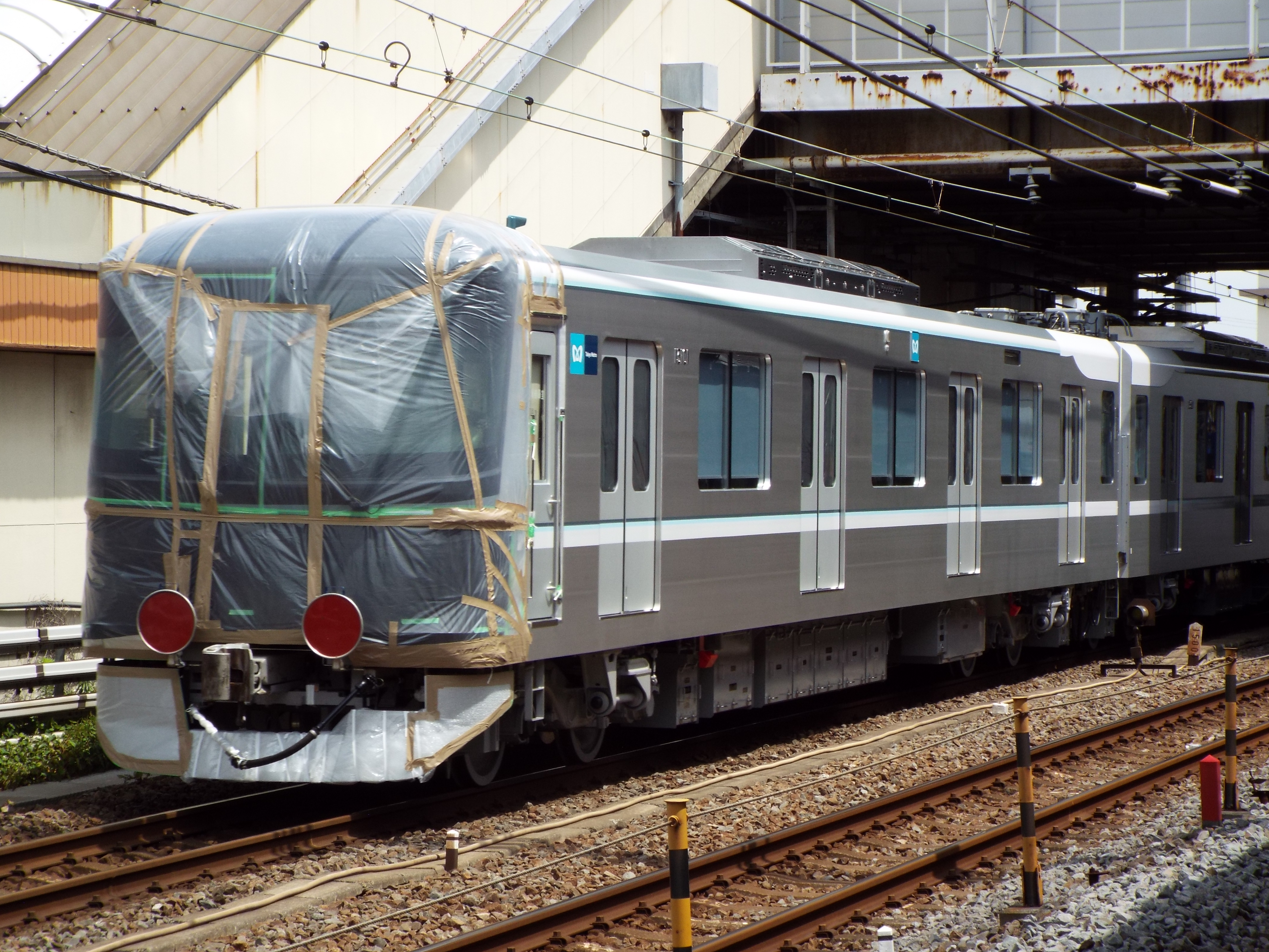 The first Tokyo Metro 13000 series EMU set 13101 at Ofuna Station on delivery from the Kinki Sharyo factory in Osaka